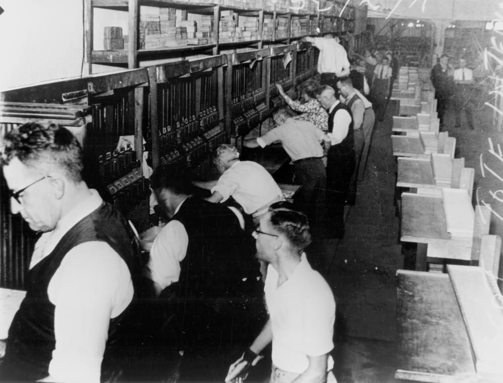 Inside the totalisator at Ascot racetrack, February 1939 Very active scene of the room filled with men working at the Tote windows. All the windows have bars and above the windows are shelves filled with stacks of money.